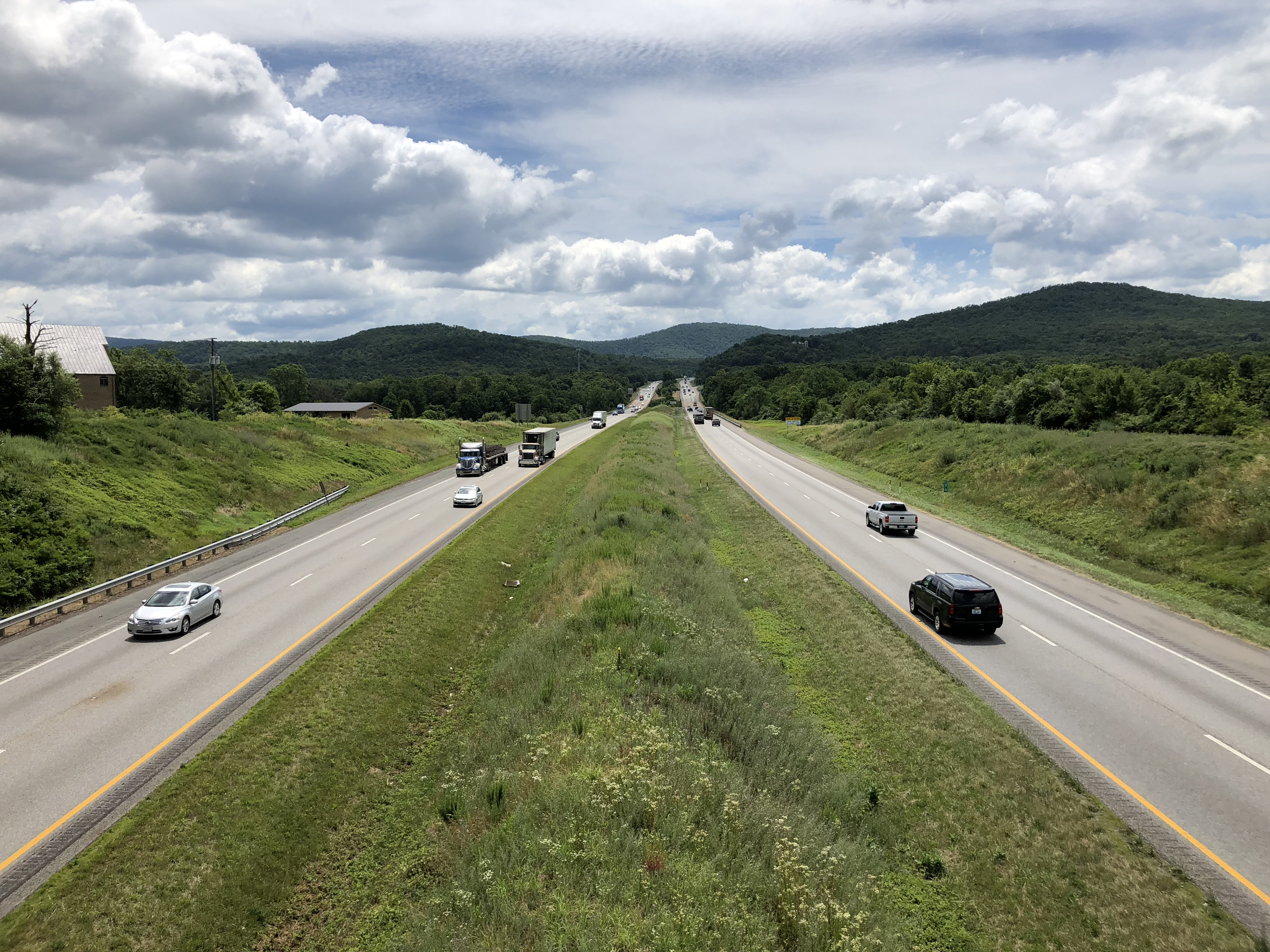 View east along Interstate 64 from the overpass for Lyndhurst Road in Waynesboro, Virginia